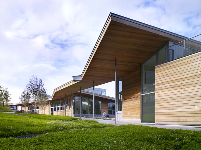 Oregon College of Art and Craft's Jean Vollum Drawing, Painting, and Photography Building